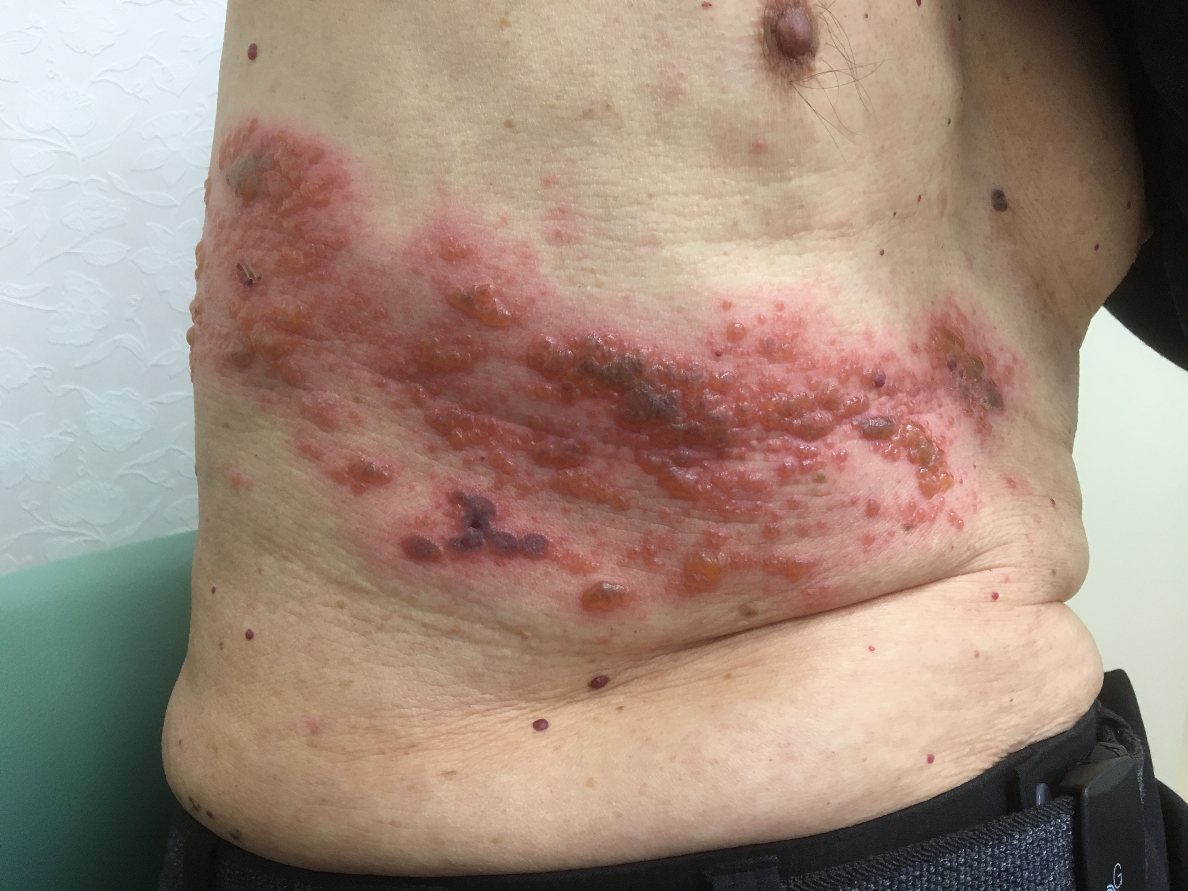 Herpes zoster 84years oid man 3day